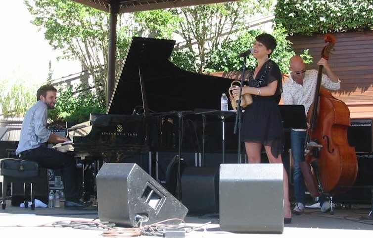 Gretchen Parlato sings at the Healdsburg Jazz Festival. Guest appearance by Taylor Eigsti on piano. Alan Hampton on bass; not pictured, Kendrick Scott on drums. Venue was Rodney Strong Vineyards in Healdsburg, California.